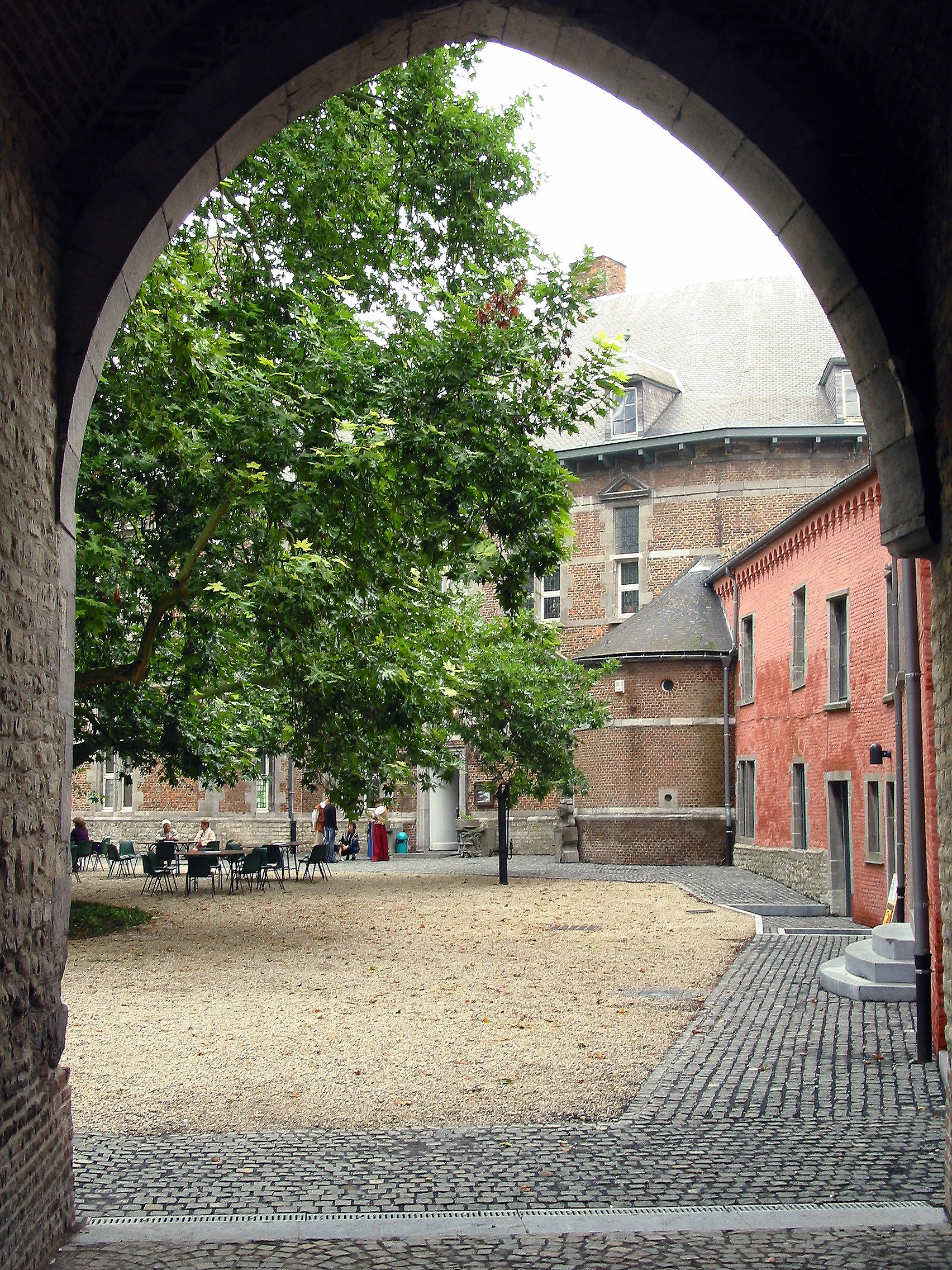 Trazegnies (Belgium), the castle (XI-XVIth century).